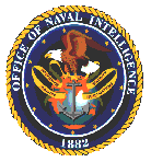 The Office of Naval Intelligence (ONI) was established in the United States Navy in 1882. ONI was established to "seek out and report" on the advancements in other nations' navies. Its headquarters are at the National Maritime Intelligence Center in Suitland, Maryland. ONI is the oldest member of the United States Intelligence Community, and is also therefore by default the senior intelligence agency within the armed forces.